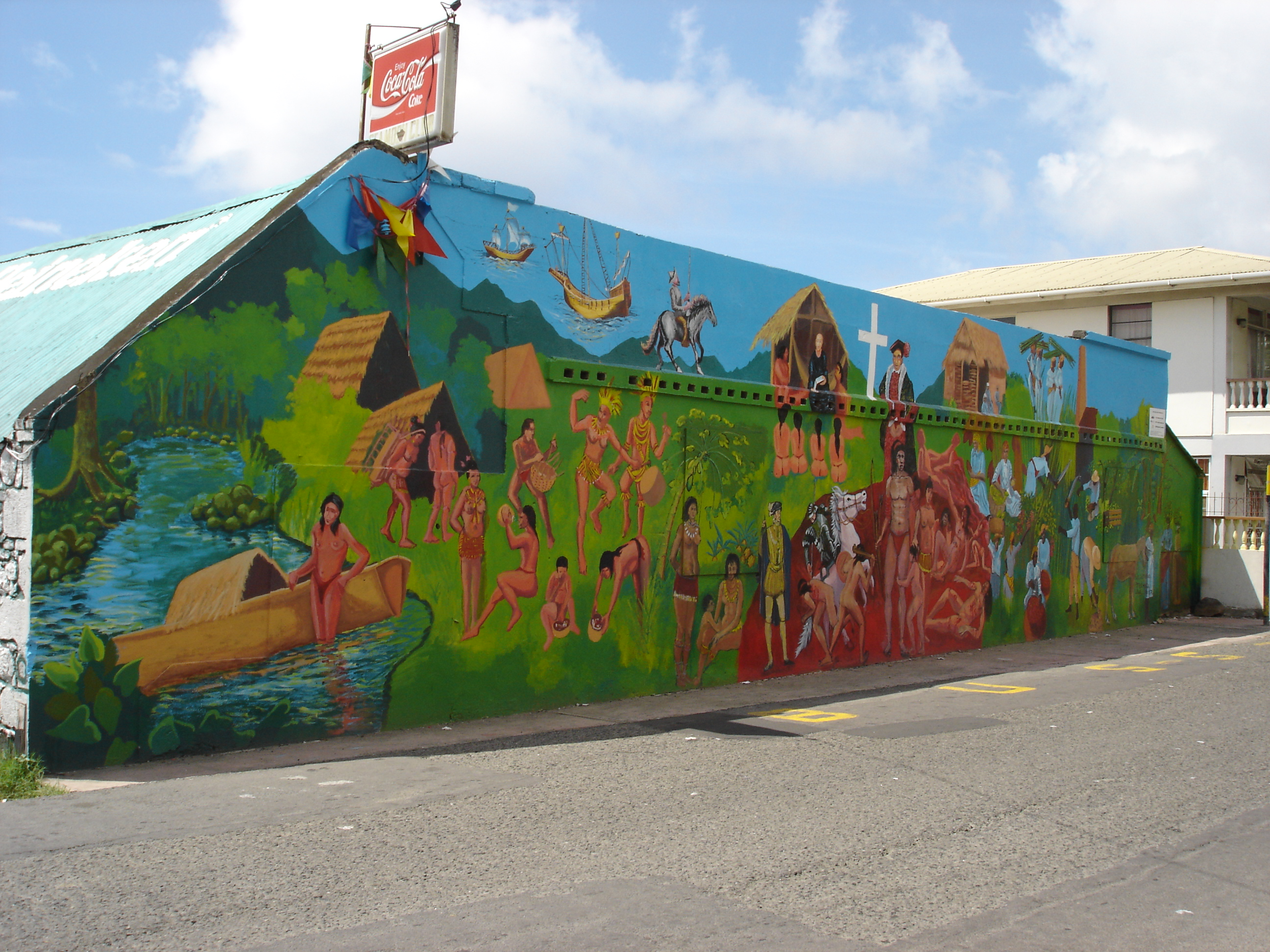 Picture of a wall painting in Massacre, Dominica, W. I. Subject is the massacre of 1674 where british troops killed about 100 Carib Indians.